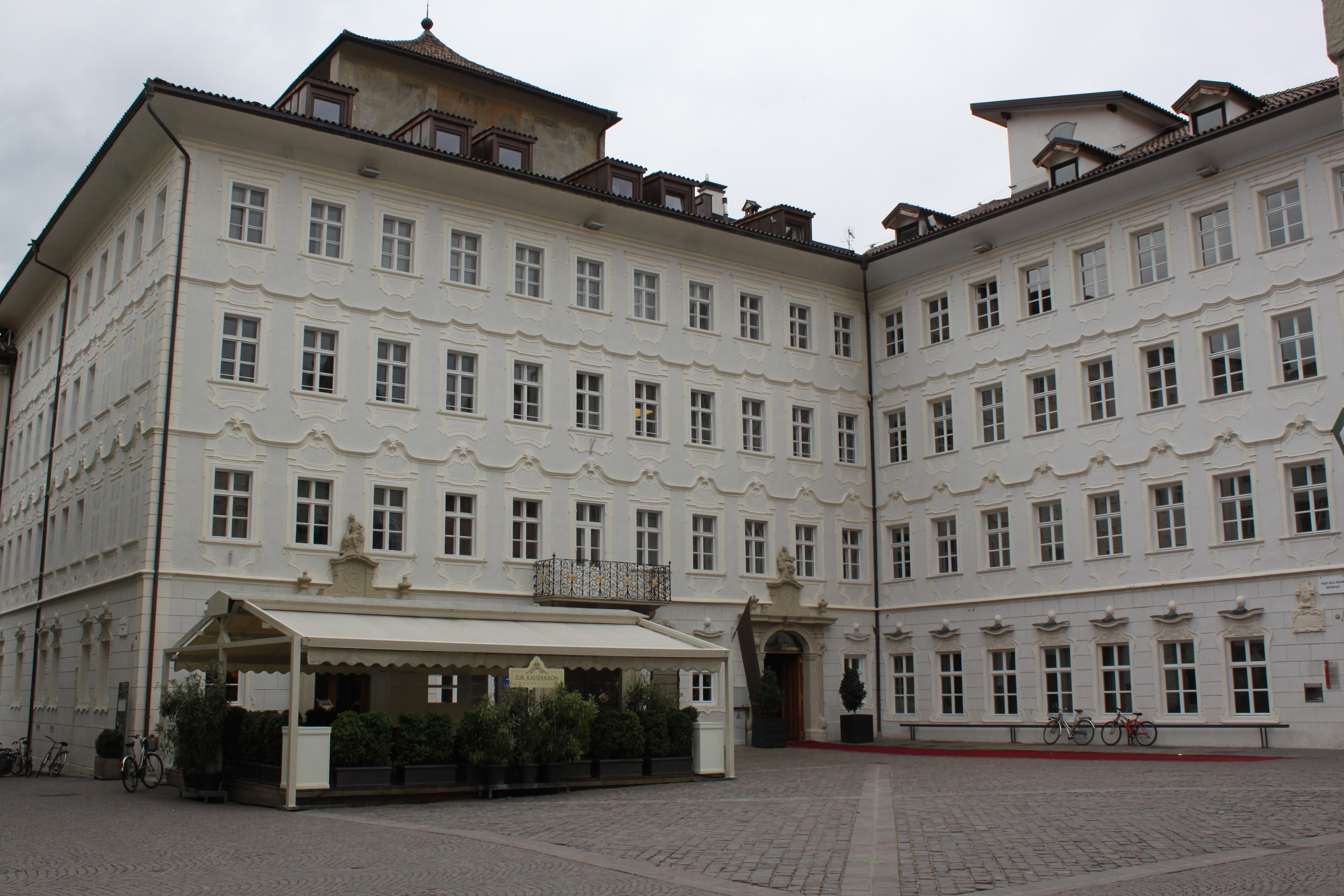 Palais Pock Palace in Bozen Bolzano Südtirol